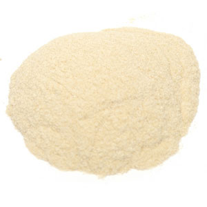 Pectin (in powder form)